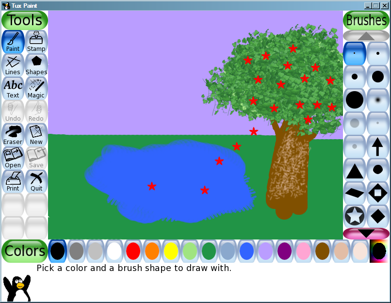 A drawing made in Tux Paint using various brushes and the Paint tool.